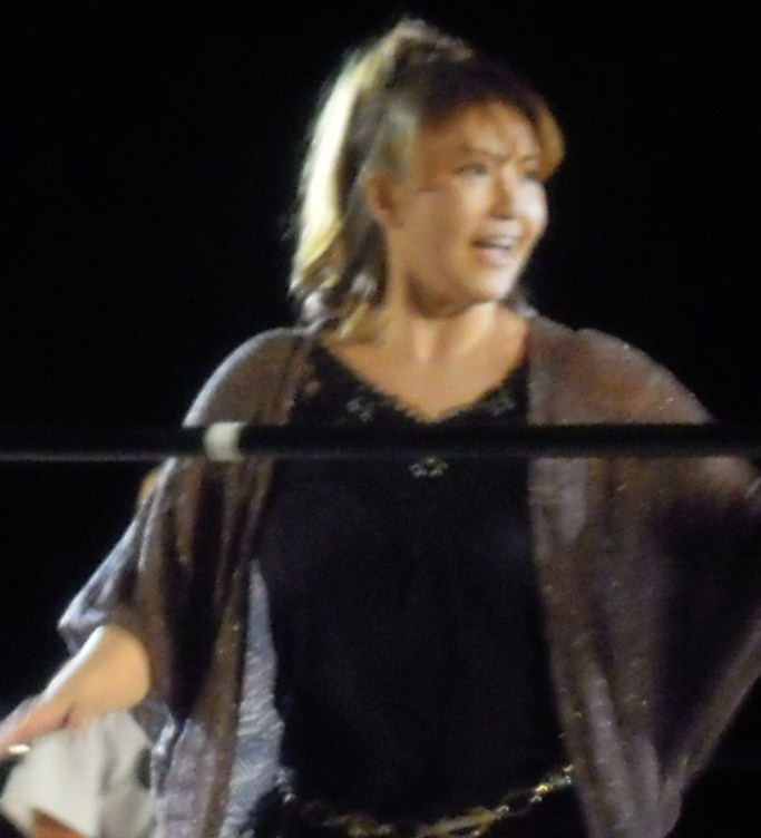 Japanese professional wrestler, Bull Nakano. 21 Aug 2011 OZ Academy Yokohama Cultural Gymnasium.